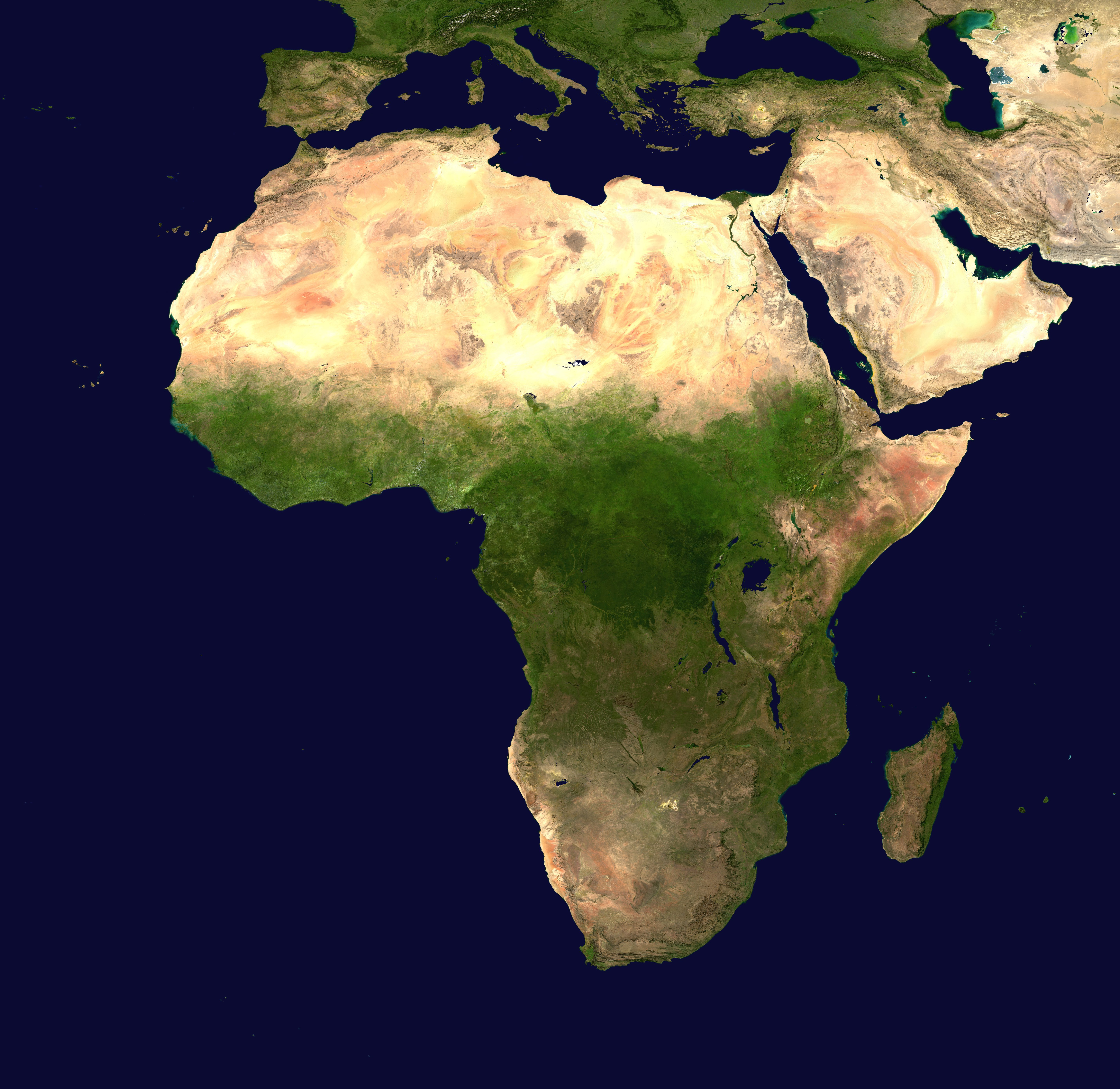 A composed satellite photograph of Africa.